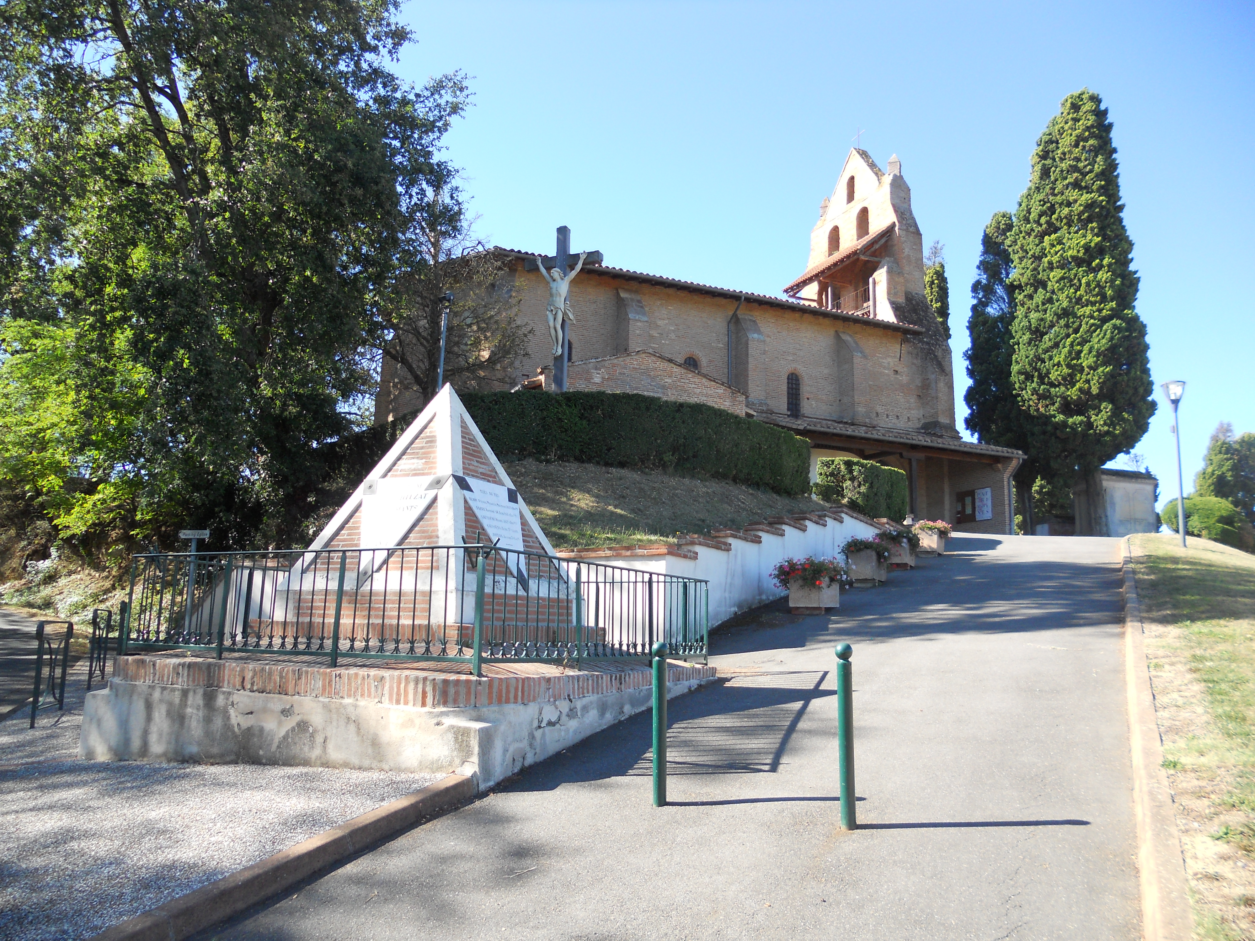 Church of Pompertuzat with the war memorial on the foreground. .